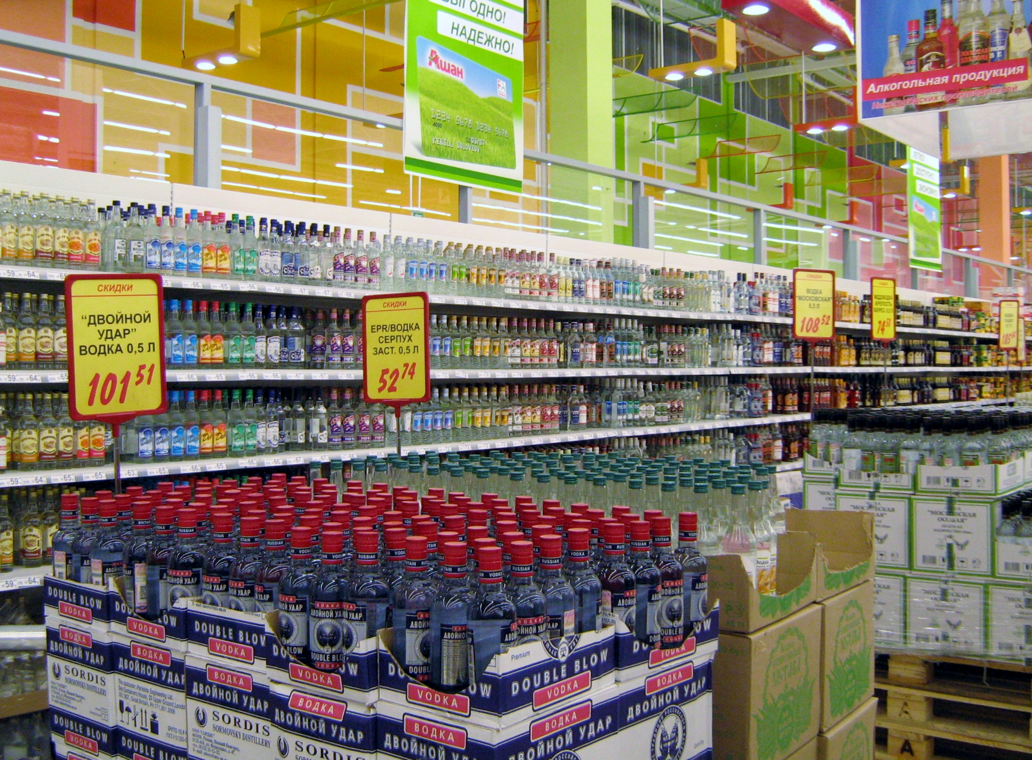 The Auchan hypermarket in Fedyakovo, near Nizhny Novgorod, carries a large selection of vodkas.